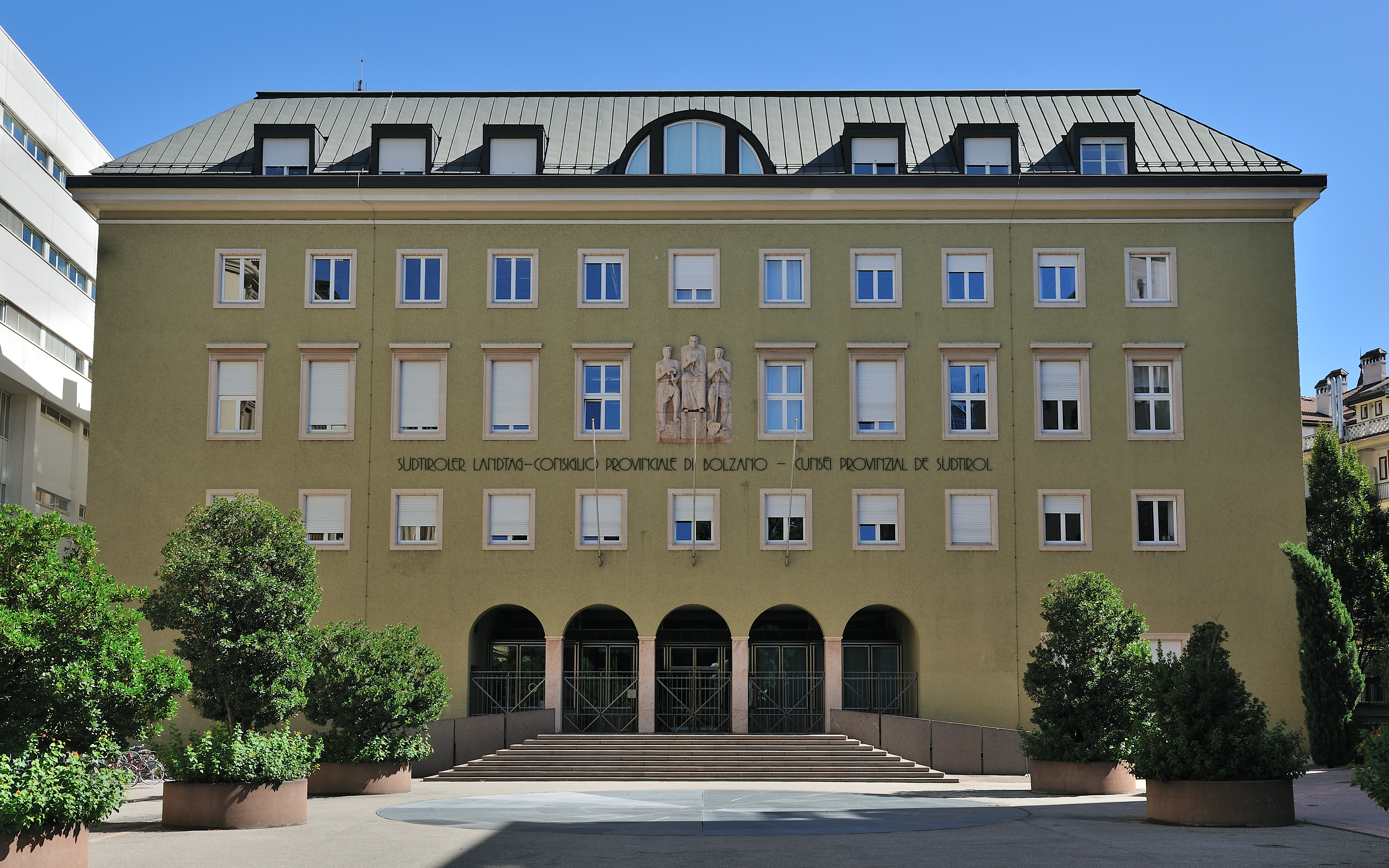 South Tyrol Province parliament in Bolzano/Bozen